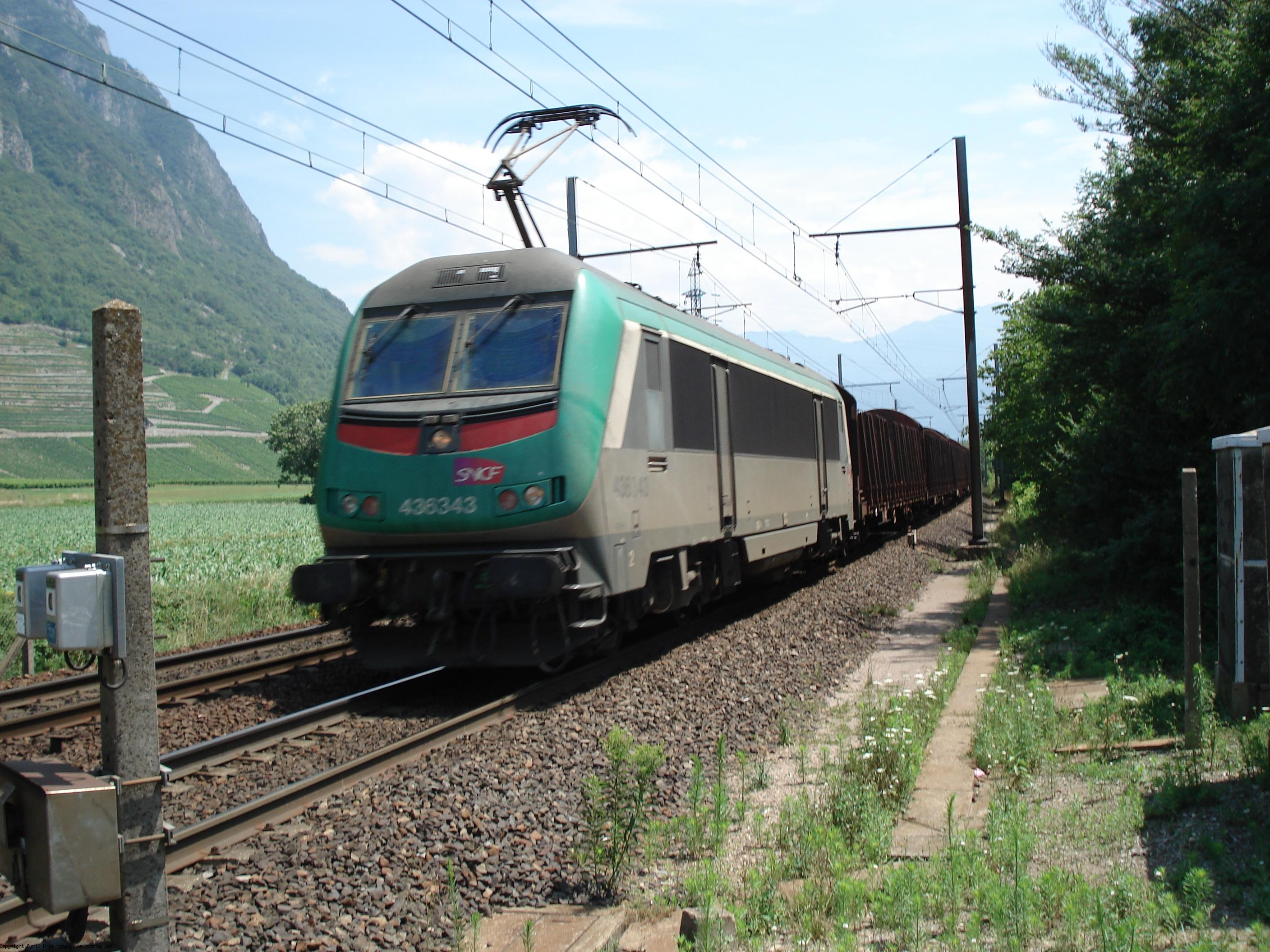 36343 near Chambéry